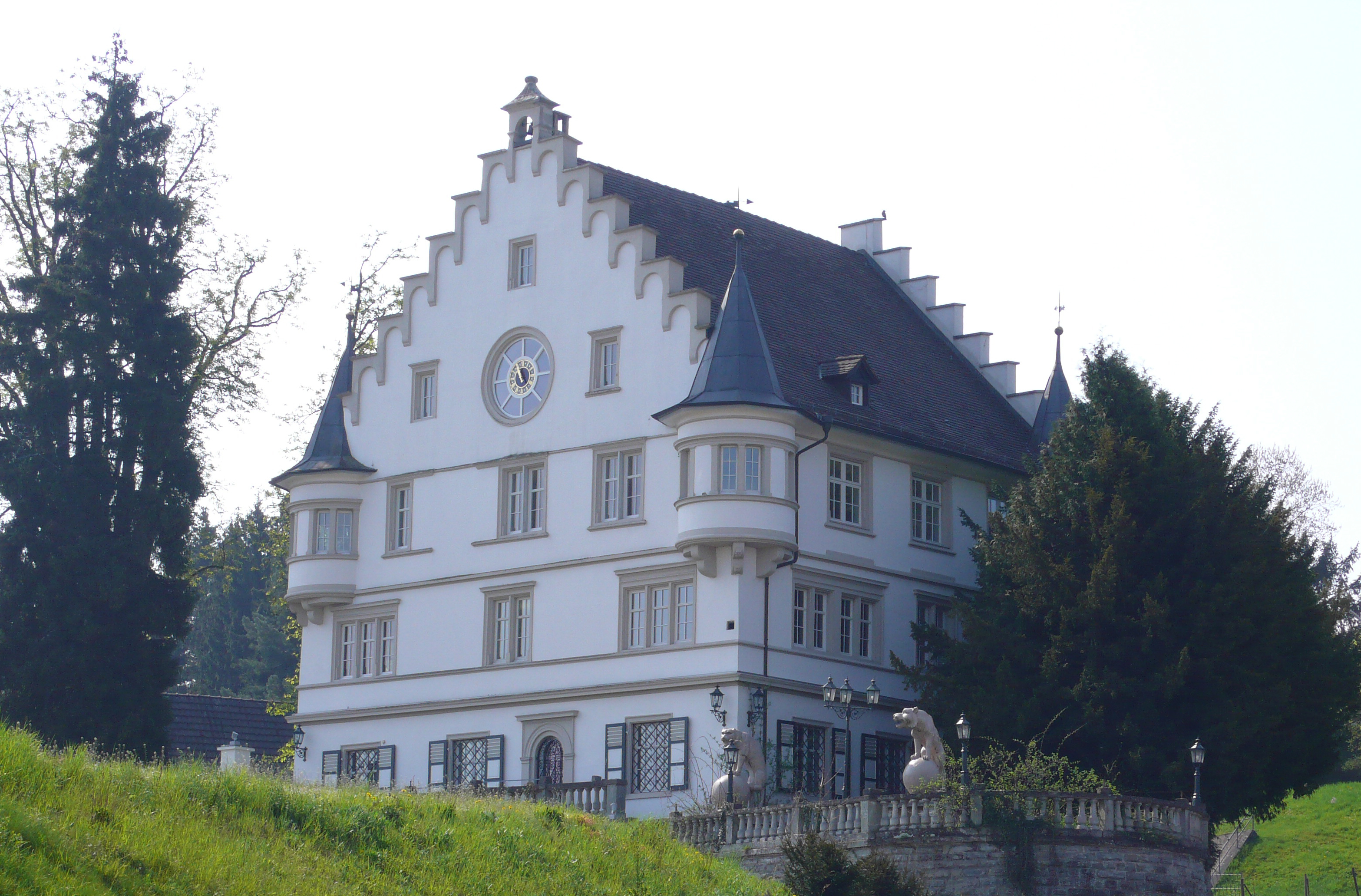 "Römerburg" in Kreuzlingen